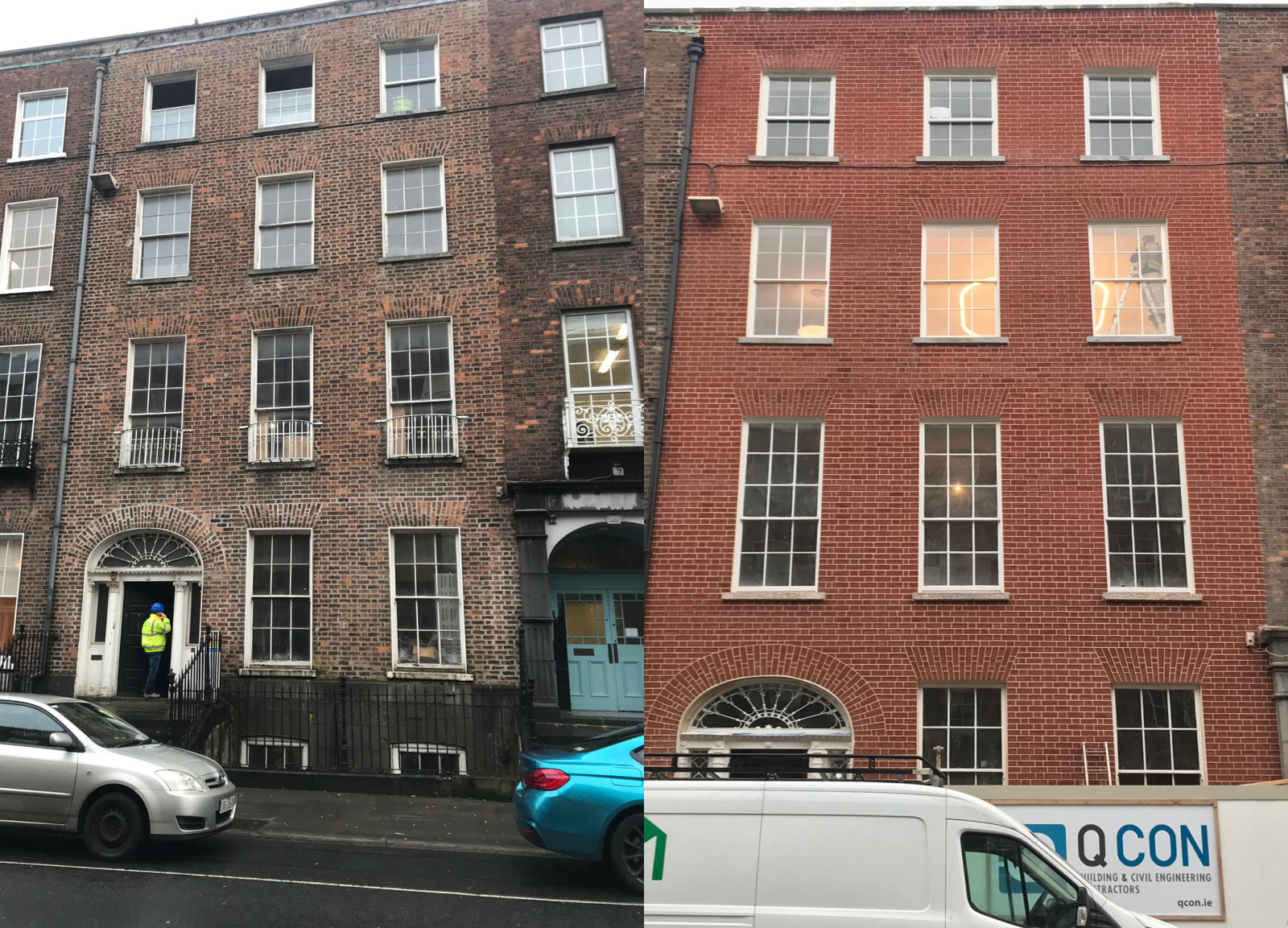 restoration of a historic building in Ireland. This Georgian Building in Limerick had been left derelict for many years. PMAC restored the entire facade by replacing damaged bricks with matching salvaged bricks, raked out all mortar joints and re pointed with hybrid lime mix mortar in the original Irish Wigging Style.